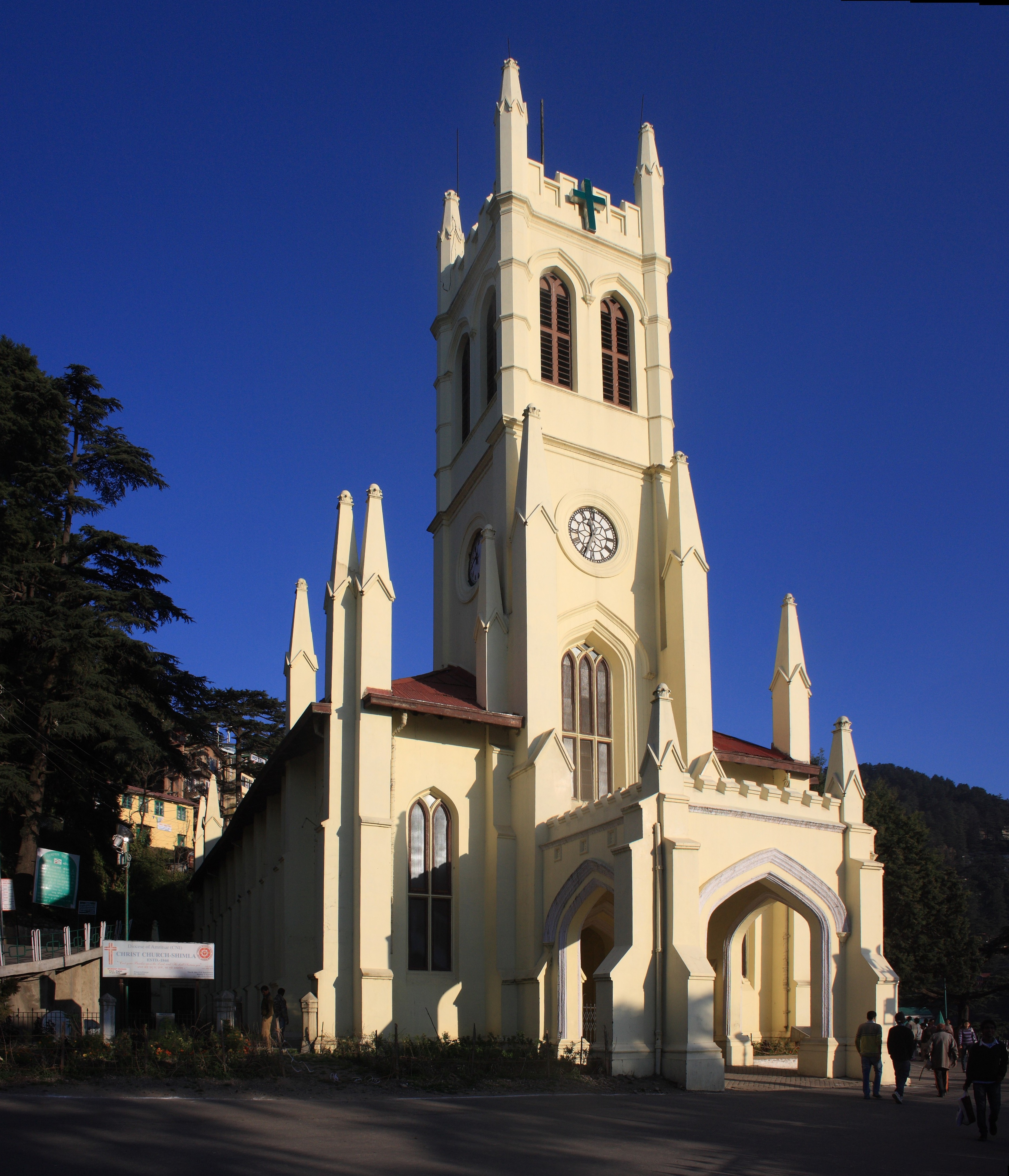 Christ Church (Shimla) St. Michael's Catholic Church at Shimla, India on a sunny day without clouds.